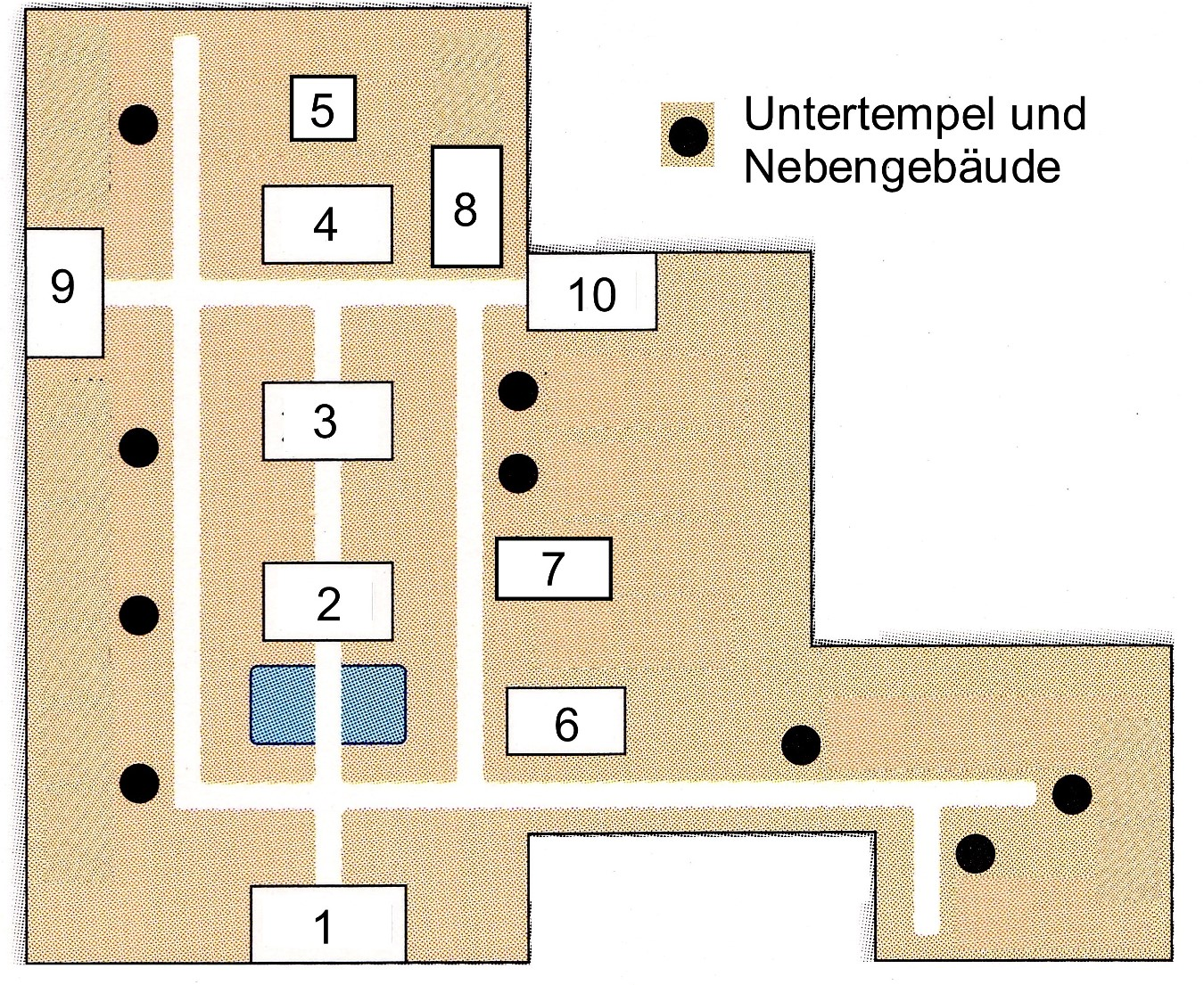 Layout of Kennin-ji